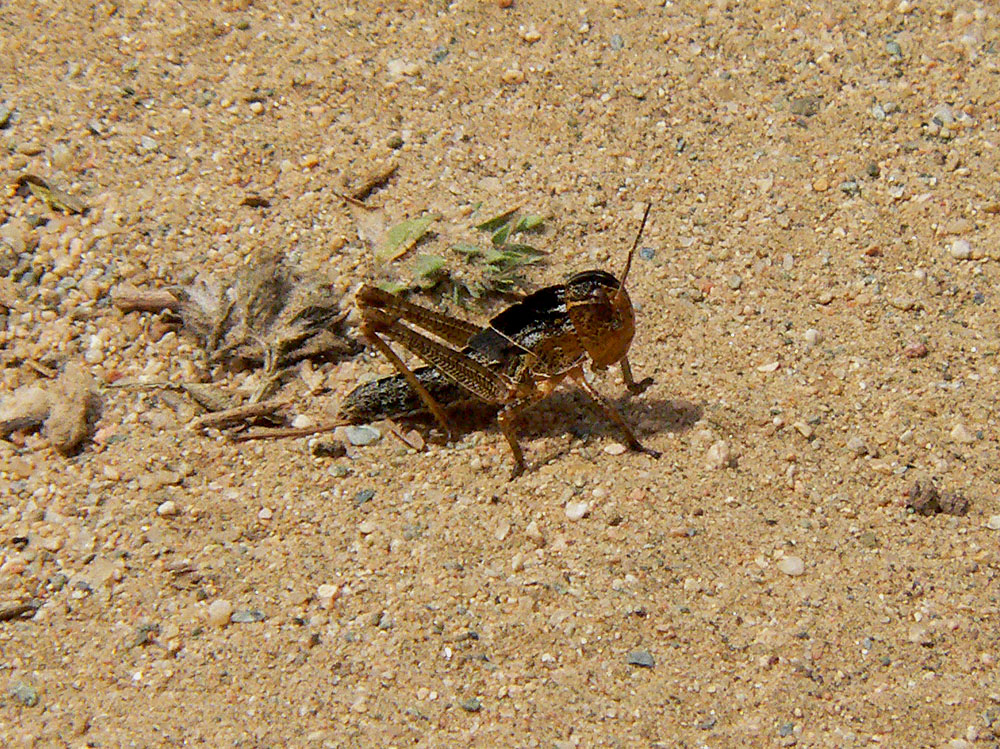 Gregarious L4 hopper of Locusta m. migratorioides photographed near Aeterba, Red Sea coast, Sudan